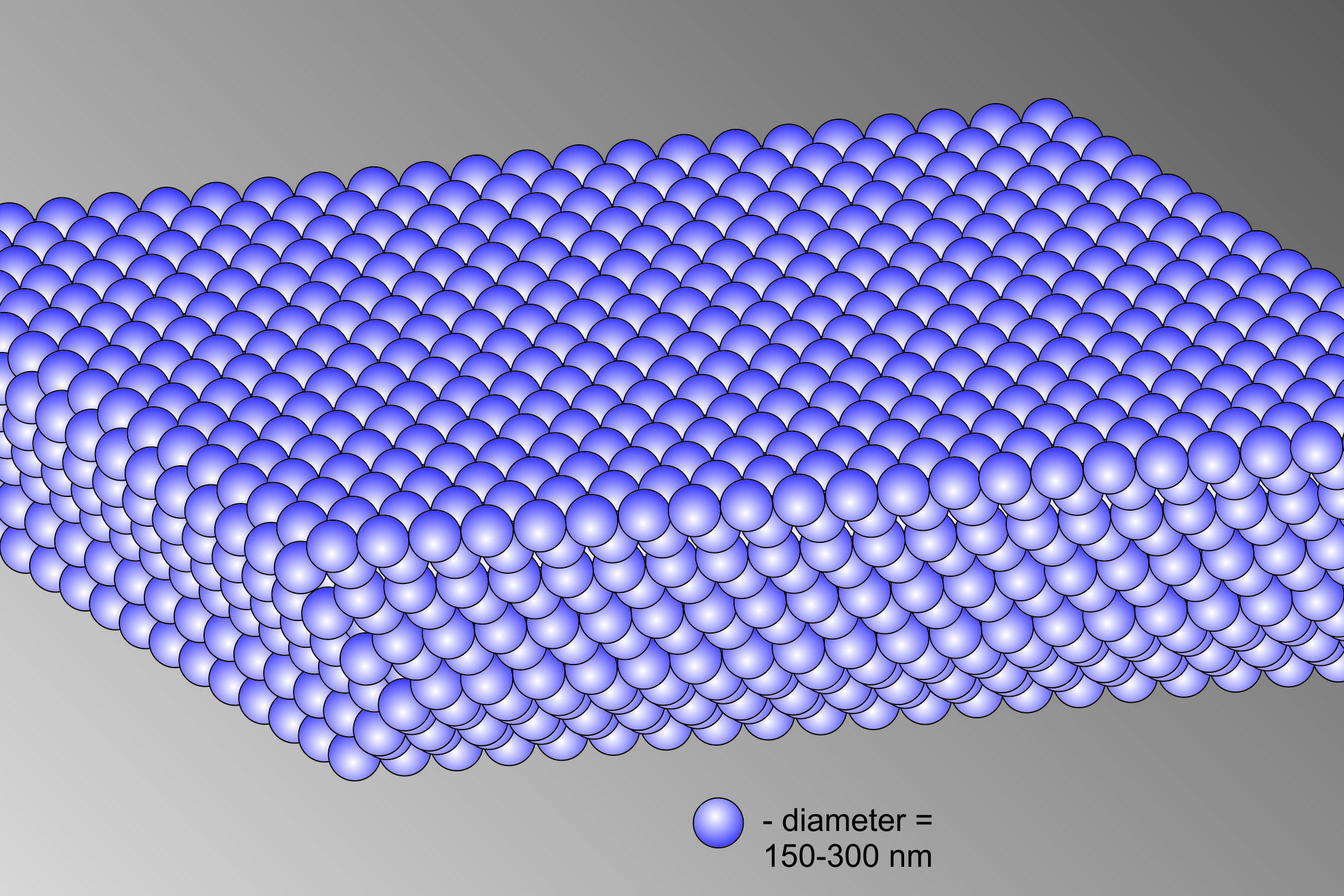 Idealized molecular structure of precious opal: an orderly array of silicon dioxide spheres.